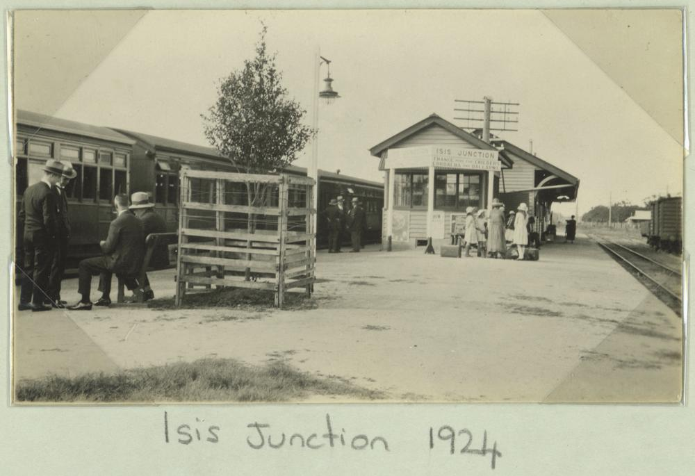 Isis Junction railway station, 1924. Passengers on the platform at the Isis Junction Railway Station, south and west of Bundaberg.